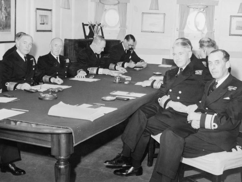 Commanders in Chief and Flag Officers of the Home and Mediterranean Fleets at a conference with the First Sea Lord, Admiral Sir Rhoderick McGrigor on board HMS Liverpool, Flagship of the Commander in Chief, Mediterranean. Left to right: Admiral Sir John Edelsten, C in C Mediterranean Admiral Sir Rhoderick McGrigor, First Sea Lord Admiral Sir George Creasy, C in C Home Fleet Rear Admiral W G A Robson, Flag Officer Flotillas Home Fleet Rear Admiral R A B Edwards, Flag Officer Second in Command, Mediterranean Fleet Commodore T M Brownrigg, Chief of Staff to the C in C Mediterranean.